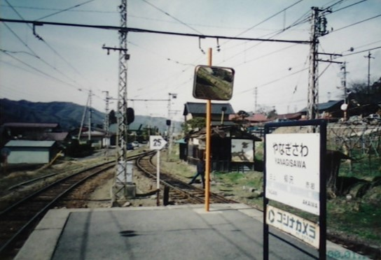 Naganodentetsu Yanagisawa Station name 2002 March